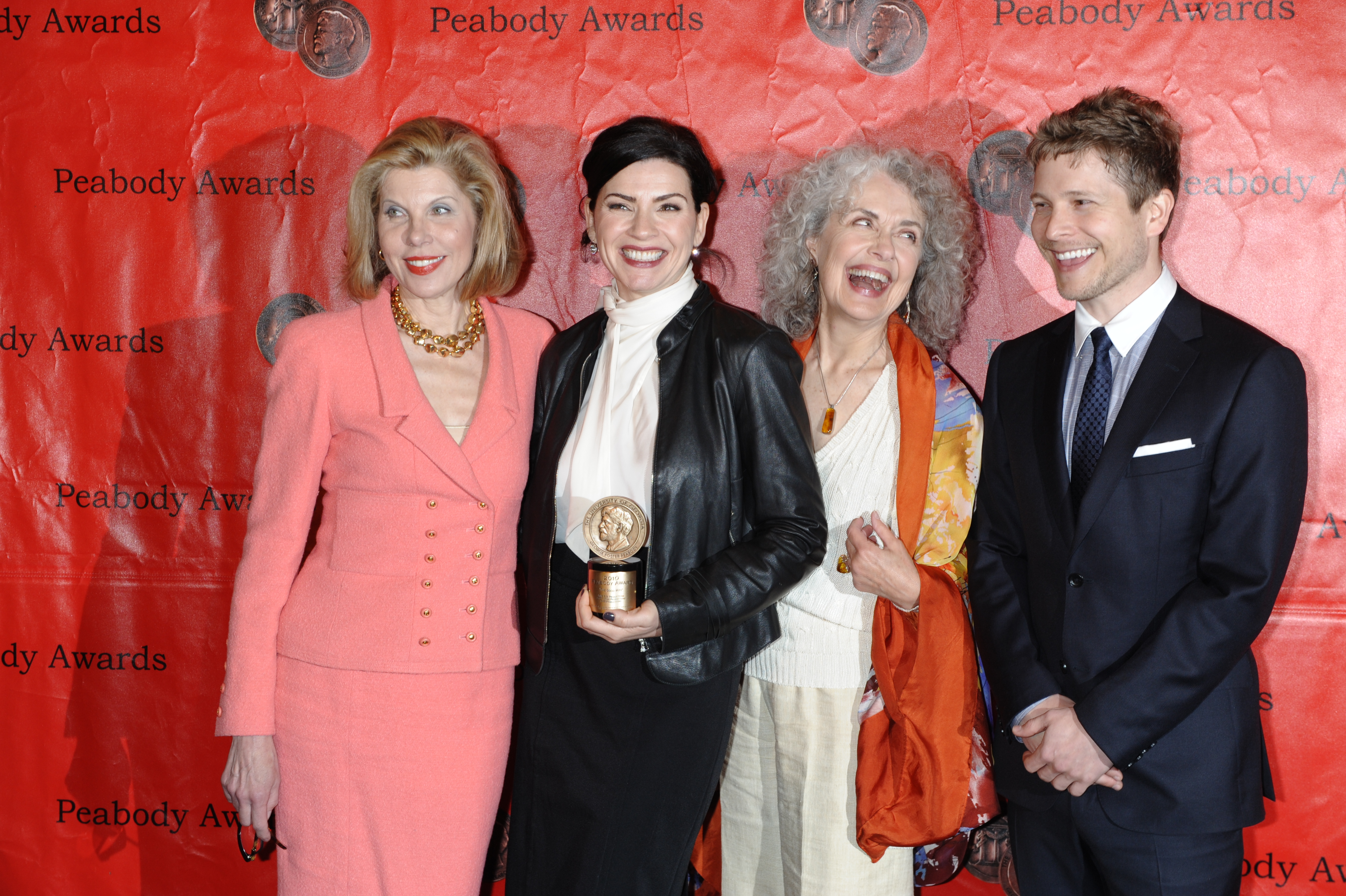 PHOTO CREDIT: ANDERS KRUSBERG / PEABODY AWARDS Christine Baranski, Julianna Margulies, Mary Beth Peil, Matt Czuchry 70th Annual Peabody Awards Luncheon Waldorf=Astoria Hotel May 23, 2011